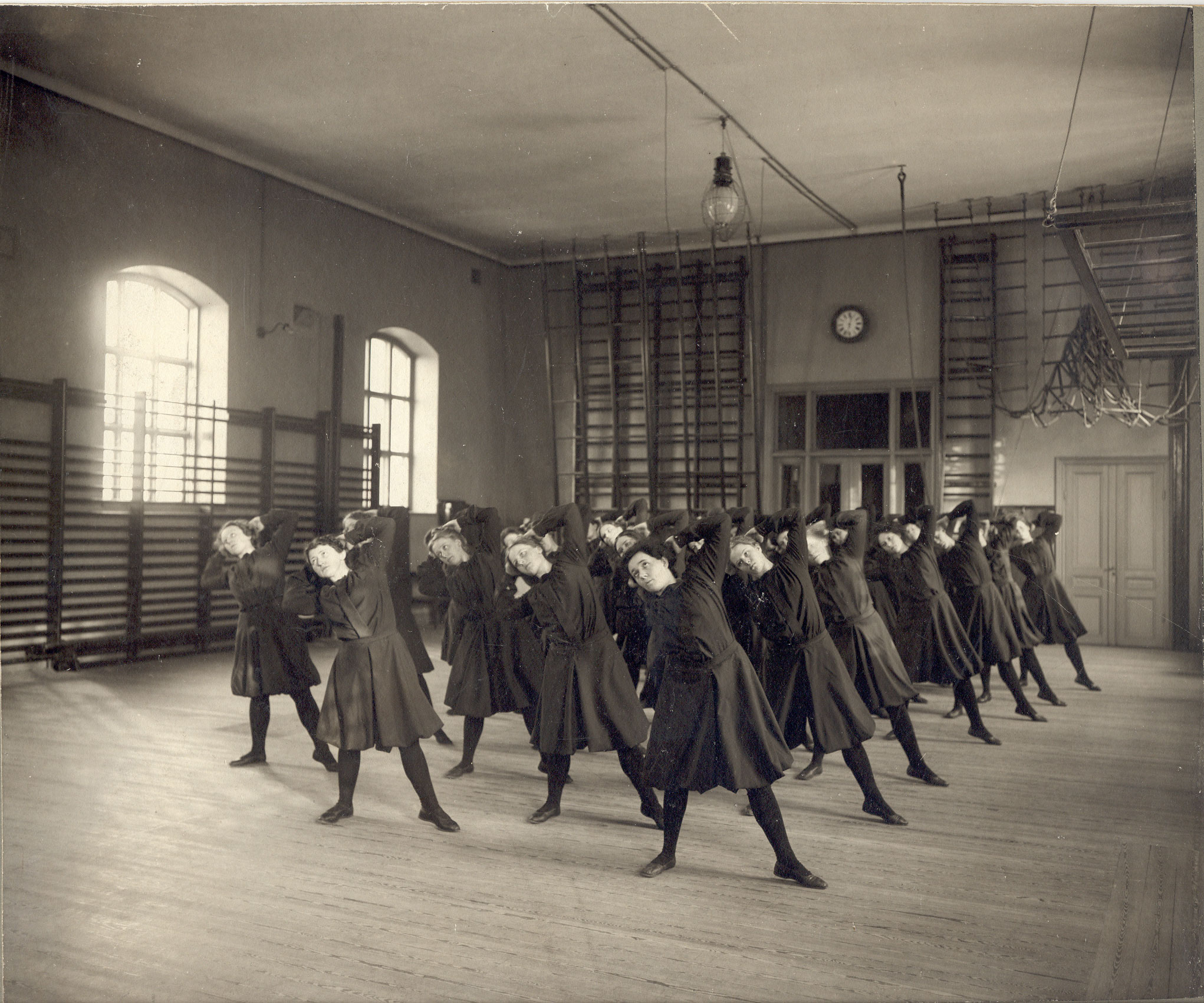 Swedish gymnastics at the Royal Gymnastics Central Institute in Stockholm, 1903-04